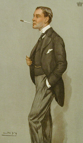 Caricature of Albert Yorke, 6th Earl of Hardwicke. Caption read "Tommy Dodd".